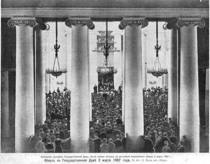 Tauride Palace, St. Petersburg (then the seat of Russian legislature), March 2, 1907. Temporary general assembly in the lobby, after the main hall roof had collapsed.